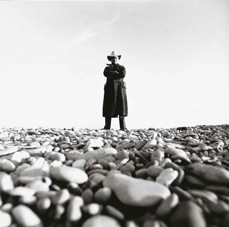 Armand Pierre Fernandez photographed by Lothar Wolleh